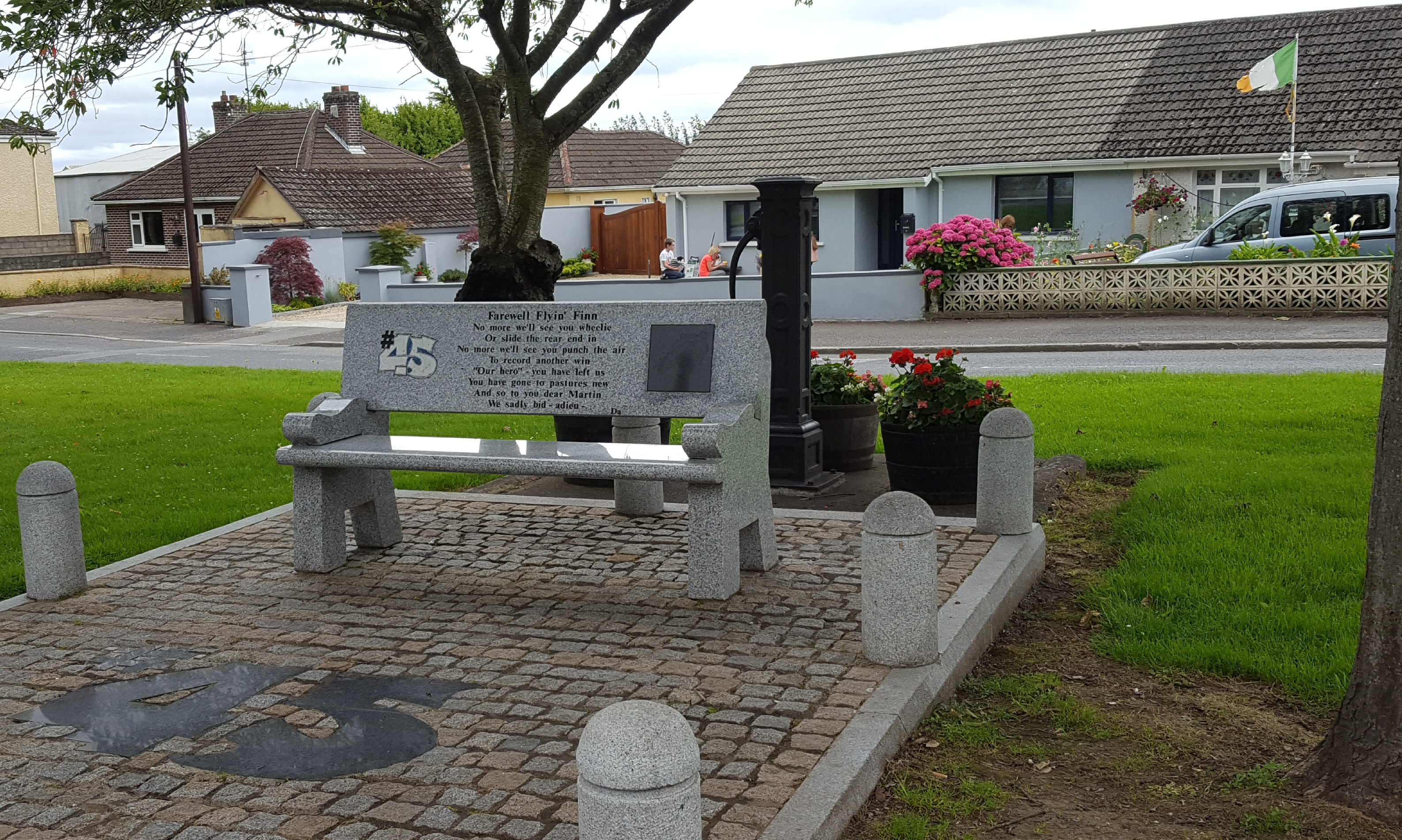 Memorial dedicated to Martin Finnegan (1979 – 2008) who died tragically in a motorcycle race. Memorial located outside St. MacCullins RC Parish Church, Lusk.